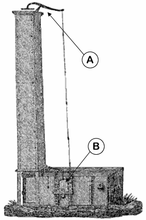 Exterior of a single puddling furnace. Captions added by me: A. Damper; B. Work door.